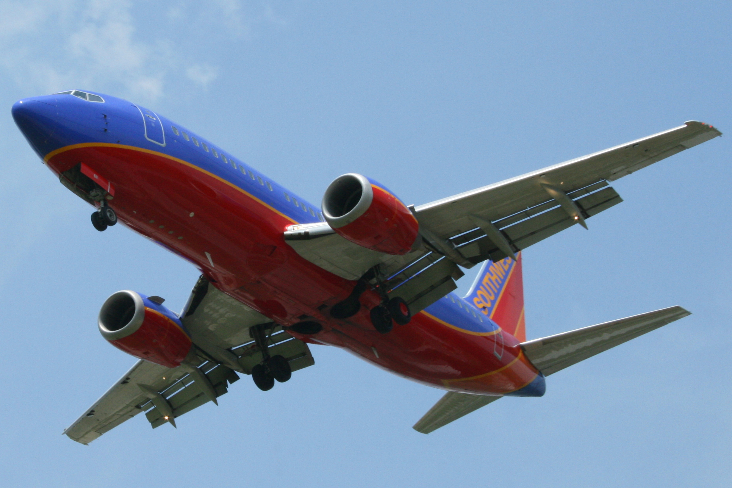 Southwest Airlines Boeing 737 on final approach to Runway 23R at RDU.